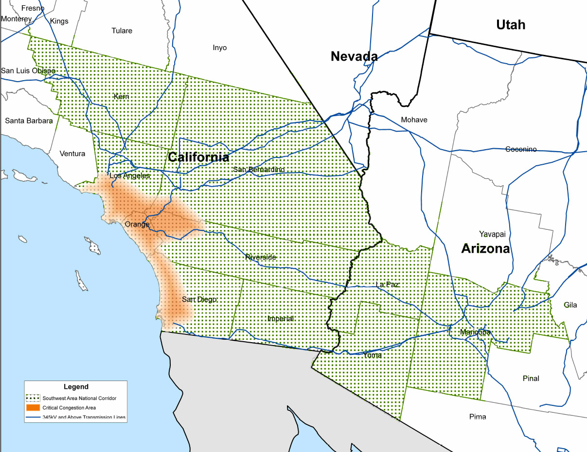 National Interest Electric Transmission Corridor designated for the Southwest Area by the United States Department of Energy in 2007.